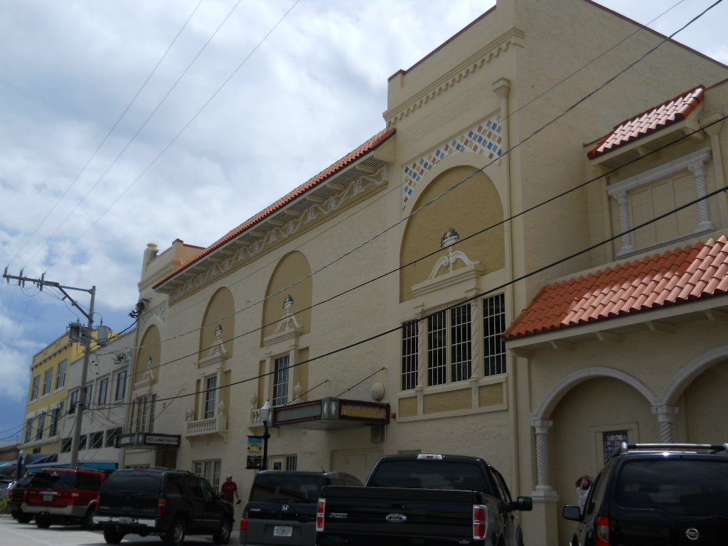 Lyric Theatre, Stuart, Florida: North (rear) side on SW Osceola Street, another view